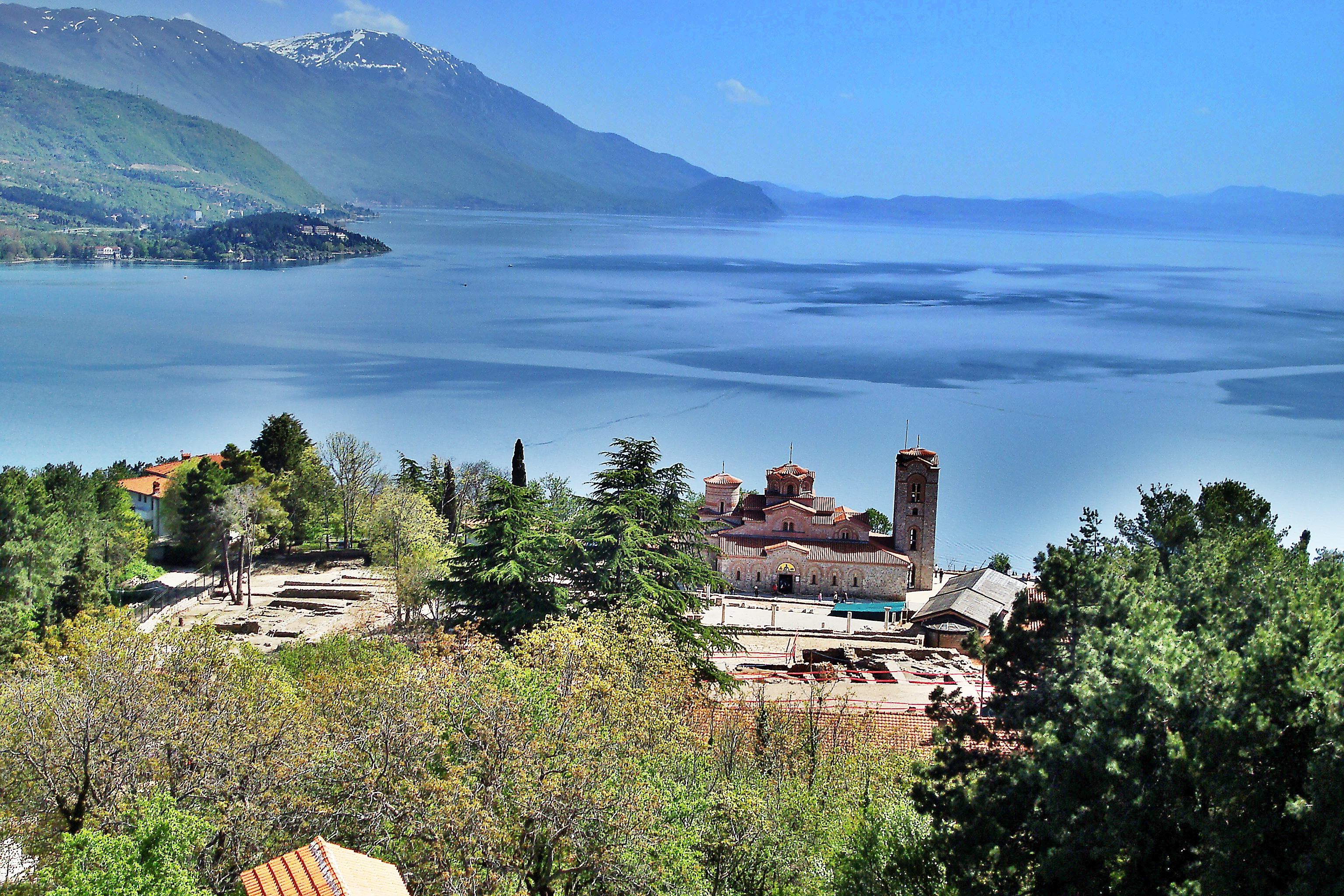 Ohrid, Macedonia This image is uploaded as part of the picture contest Wiki Loves Cultural Heritage in Macedonia 2013. English | македонски | +/−